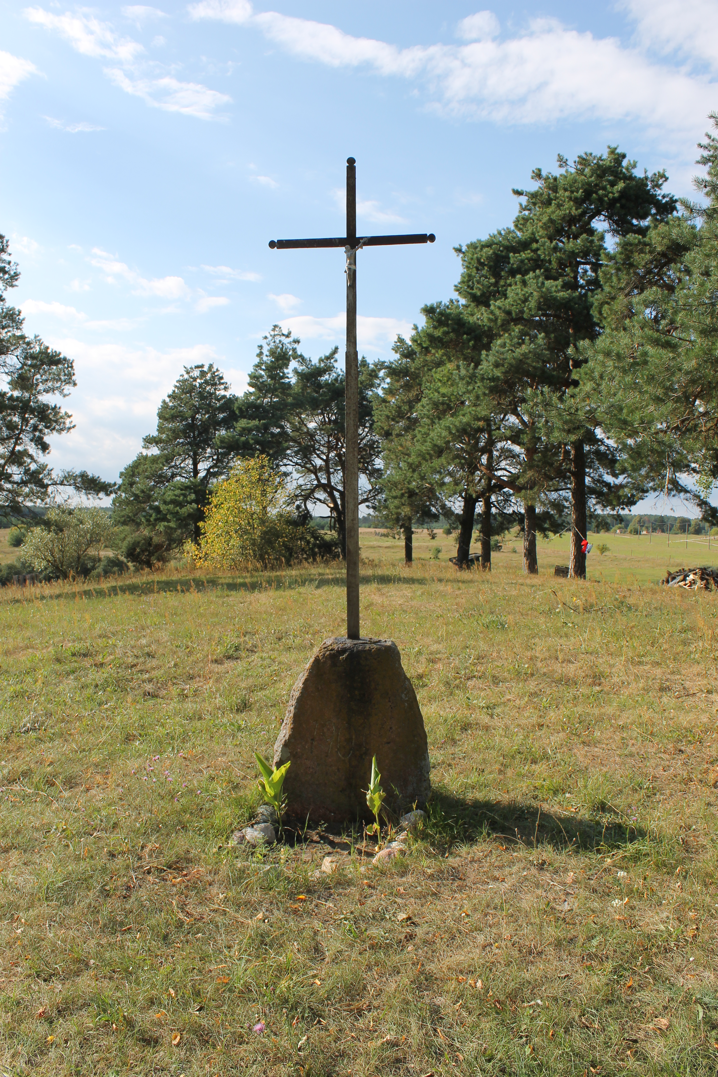 Jovaišiai Cross, Druskininkai municipality, Lithuania